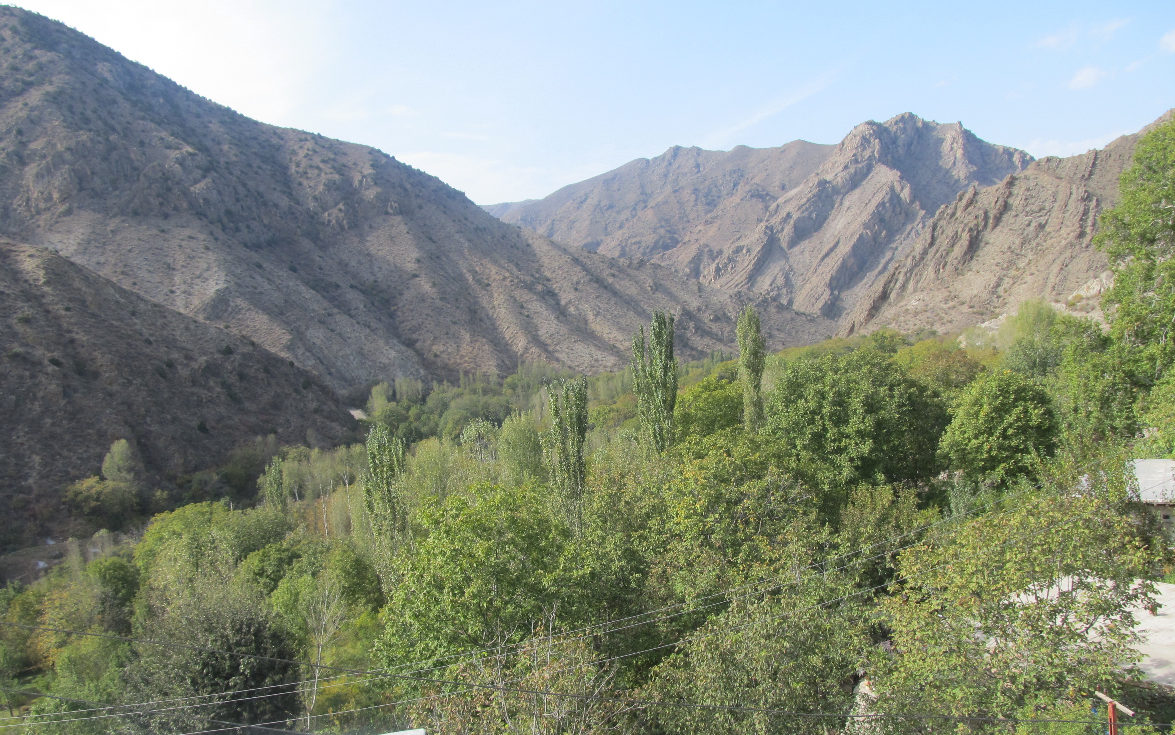 Pomegranate orchards on rocky terrains of Arasbaran region in Iran.